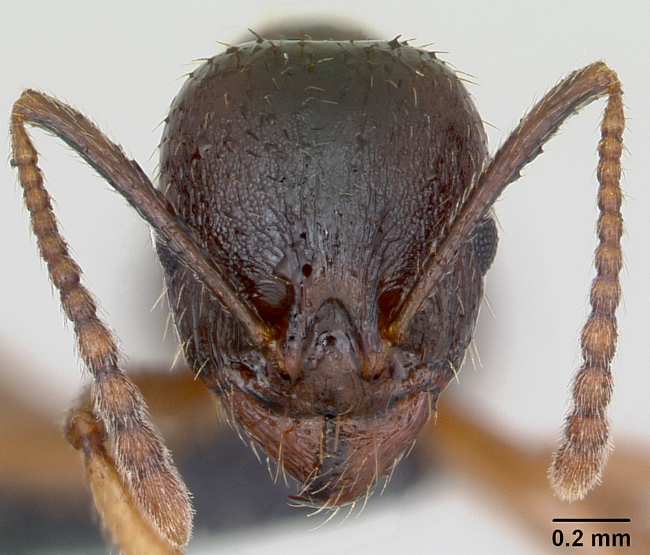 Head view of ant Aphaenogaster subterranea specimen casent0172716.